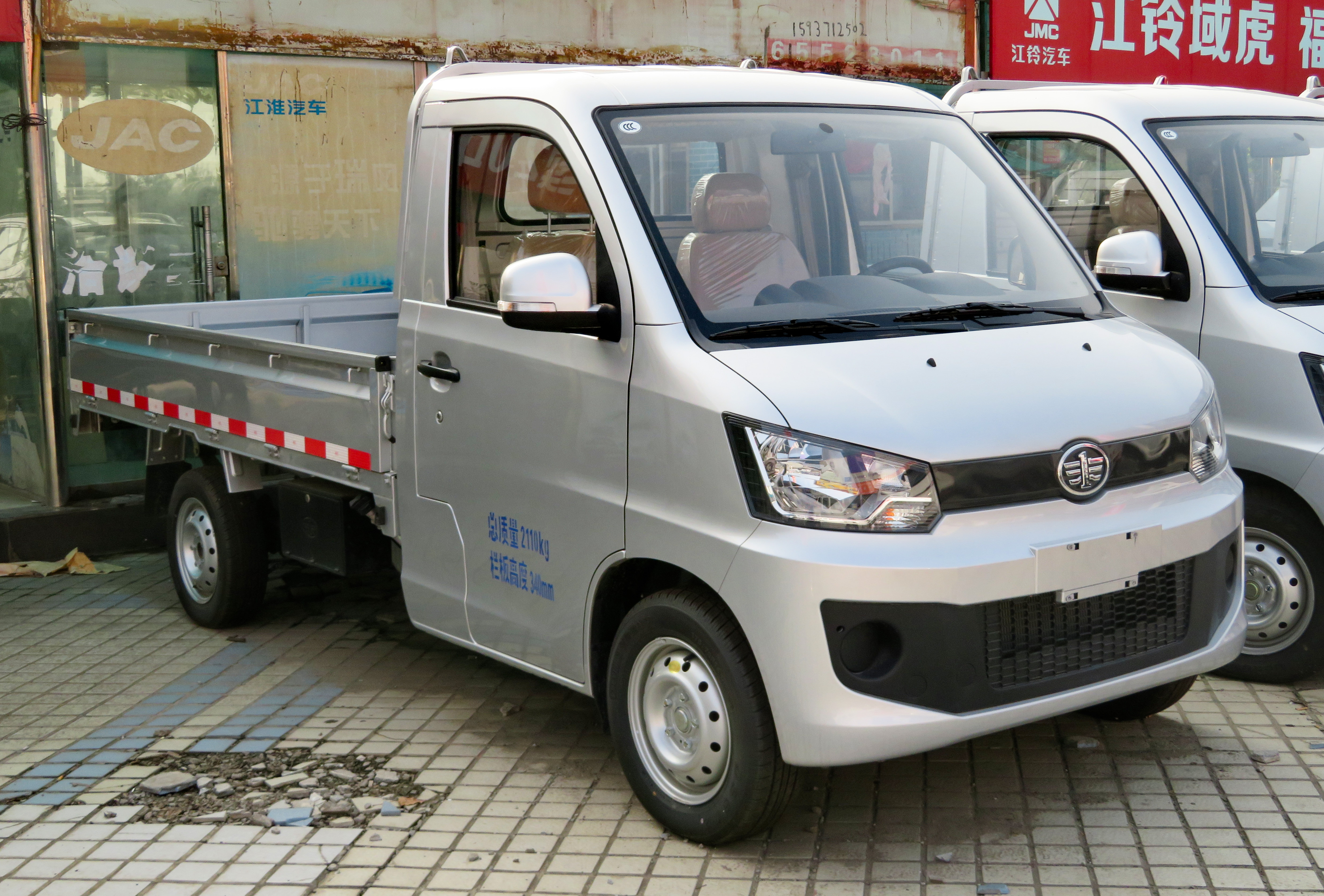 A 2018 FAW-Jilin Jiefang T80 photographed at Guanlinzhen, in Luoyang, Henan province, China